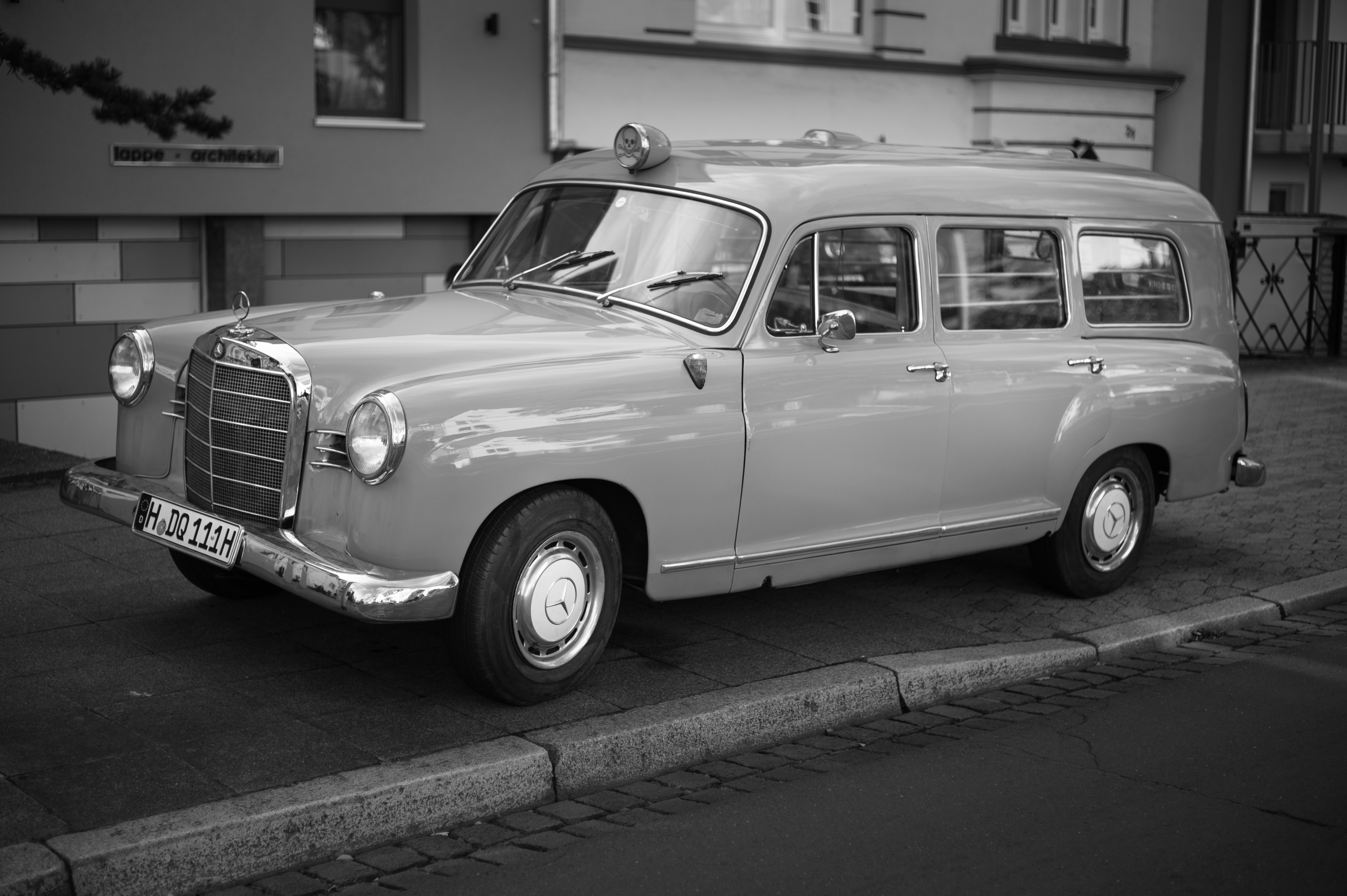 Mercedes-Benz type W120, custom build station wagon body by Binz company. Car seen in Hannover, Germany.